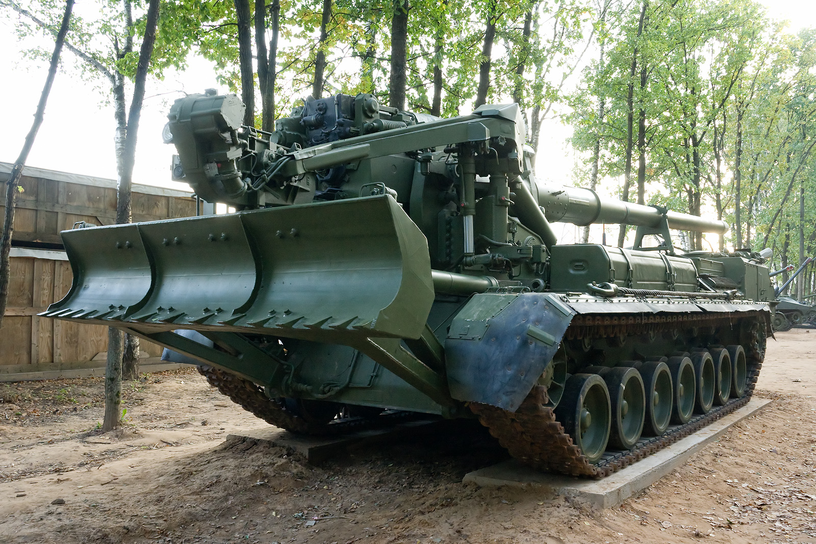 2S7 Pion at Museum of Technics, Arkhangelskoye, Moscow Region